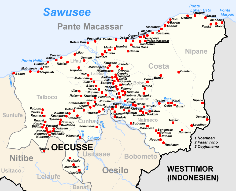 Subdistrict of Pante Macassar, district Oecusse, East Timor